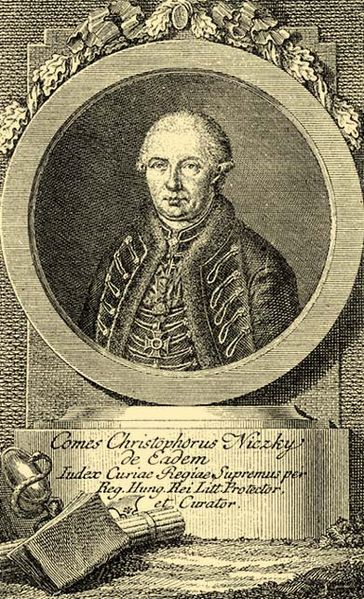 Kristóf Niczky (February 11, 1725 — December 26, 1787) Hu: Niczky Kristóf tárnokmester (Comes Christophorus Niczky de Eadem Iudex Curiae Regiae Supremus per Reg(num). Hung(ariae). Rei Litt(erariae). Protector et Curato)